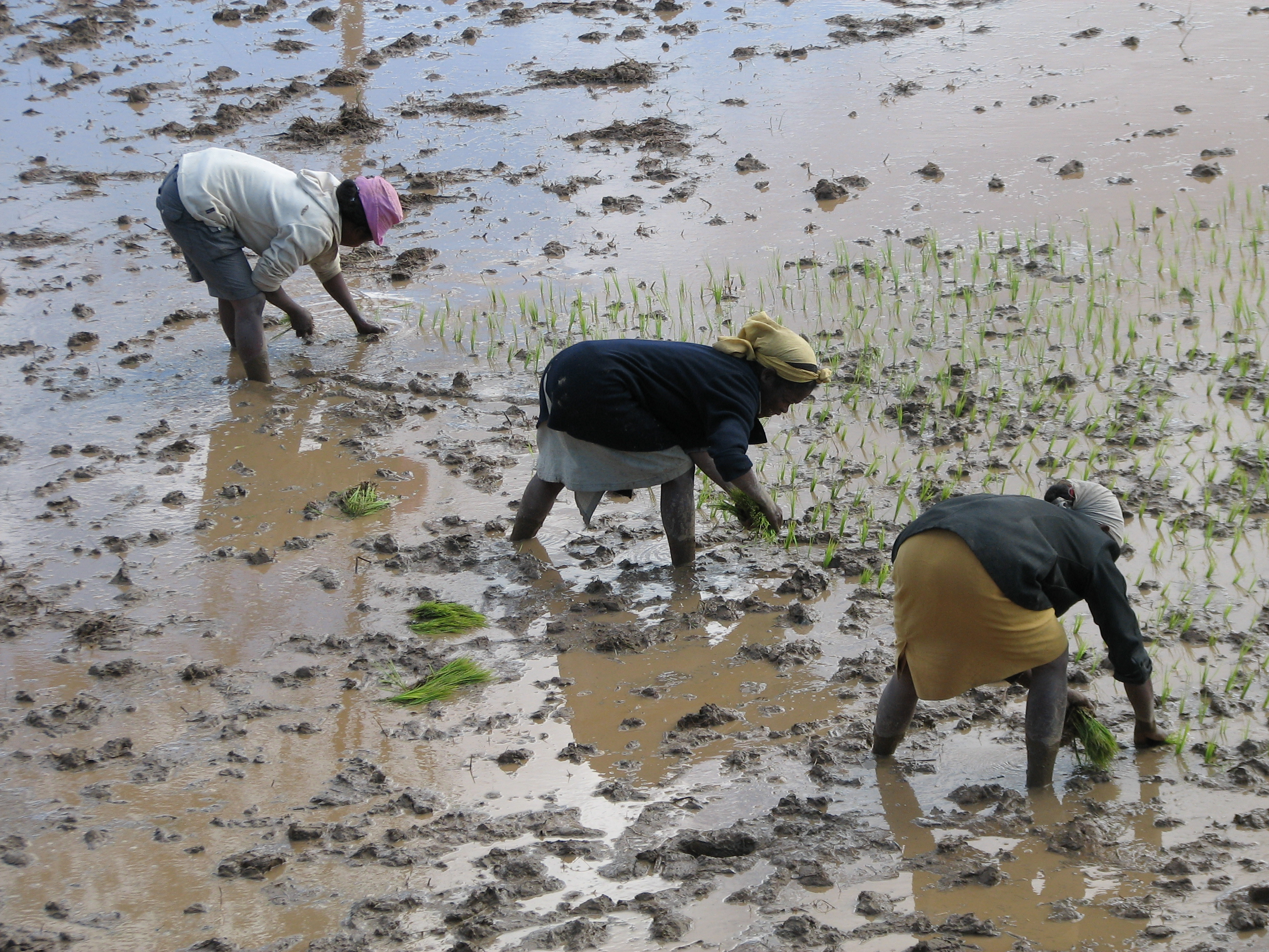 Women planting rice